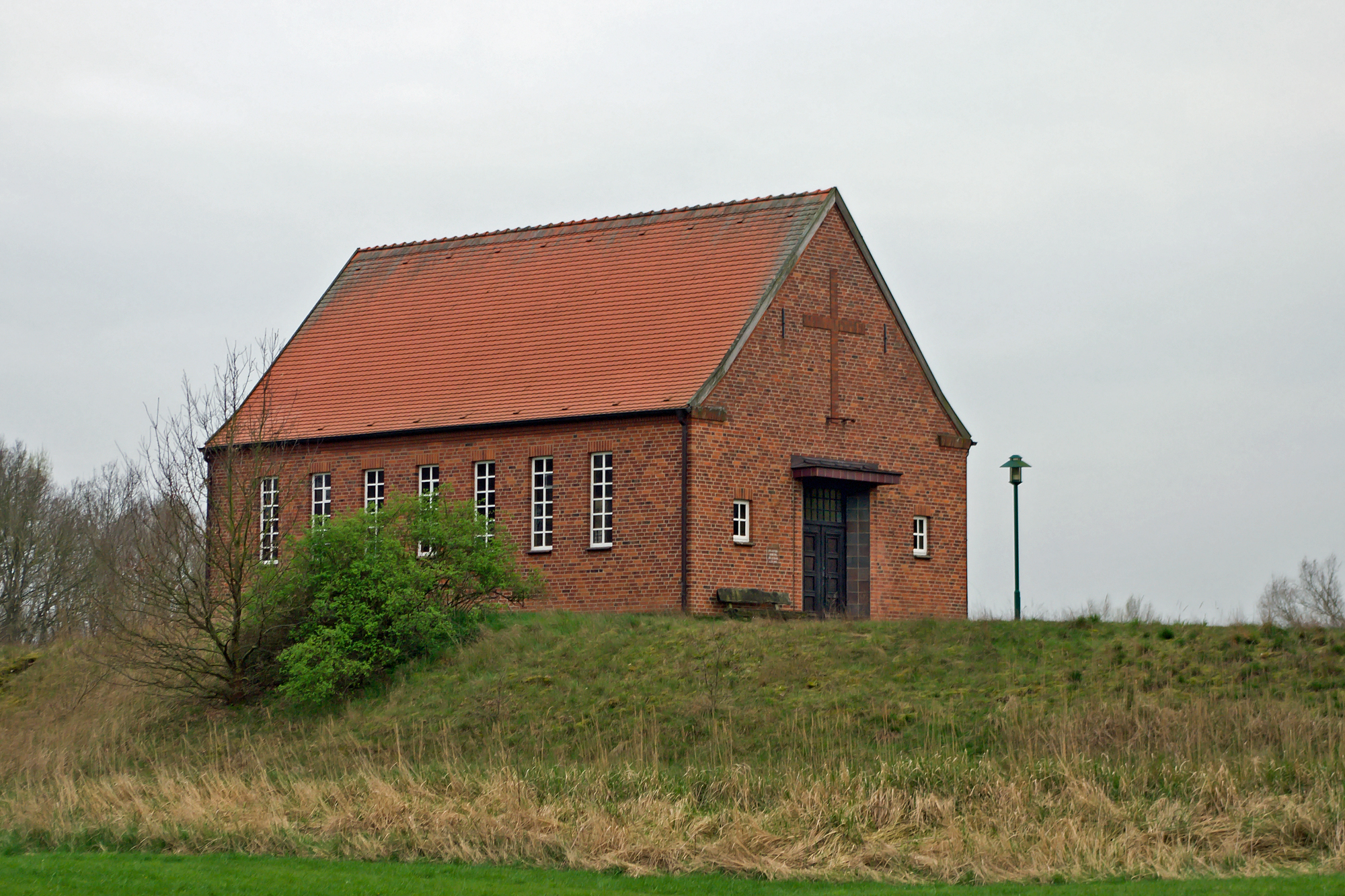 Chapel of the villages Konau and Popelau (Amt Neuhaus, district Lüneburg, northern Germany); built in 1953 – remarkably, in "GDR" times.